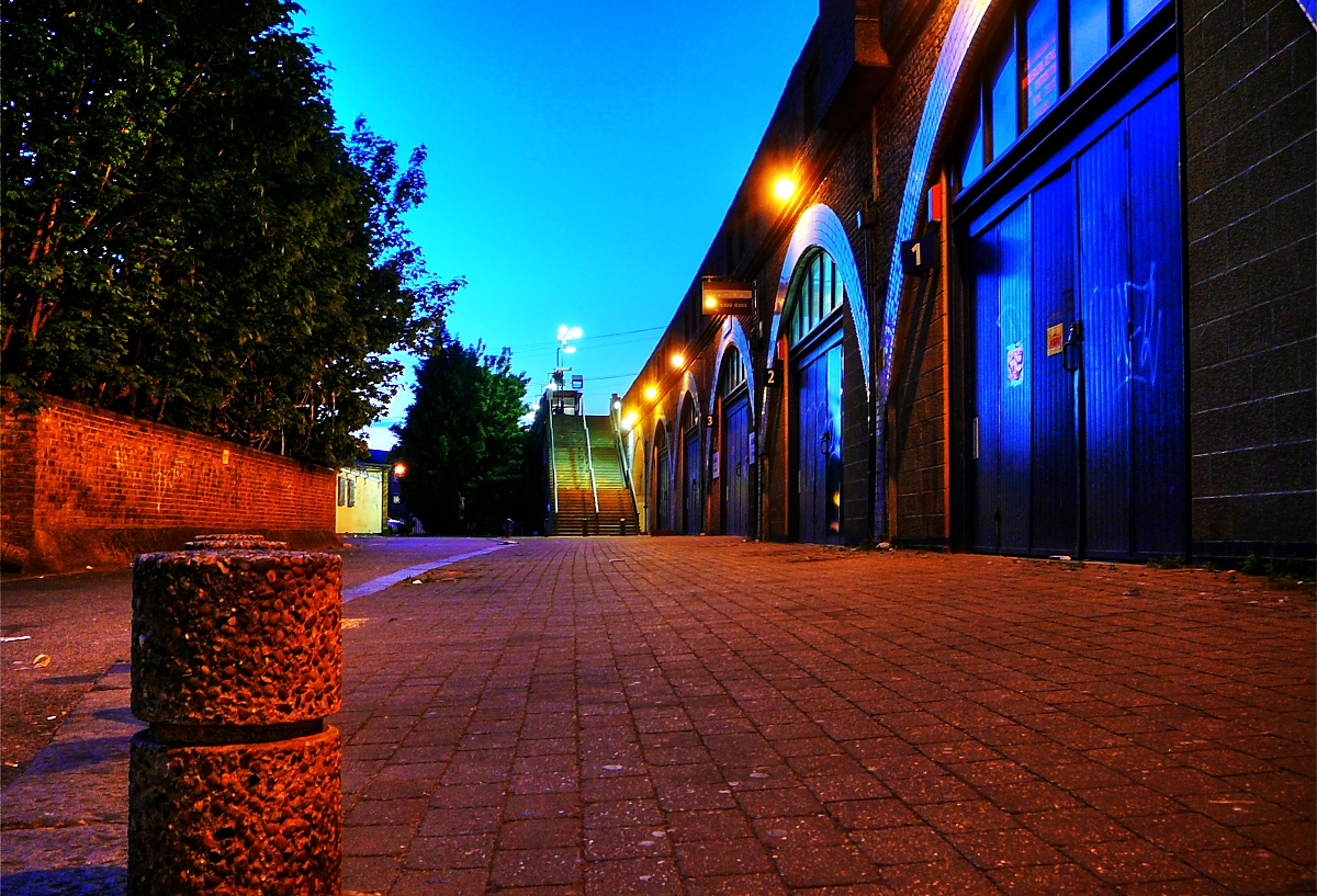 Leytonstone High Road station entrance, with stairs leading up to the westbound platform. The image was taken with a Panasonic Lumix DMC-TZ1.